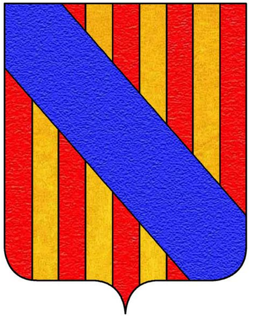 Arms of Paternò Castello, Dukes of Carcaci, Sicily: Or, four pales gules overall a bendlet azure. These are the royal arms of Aragon differenced by a bendlet azure: .[1]